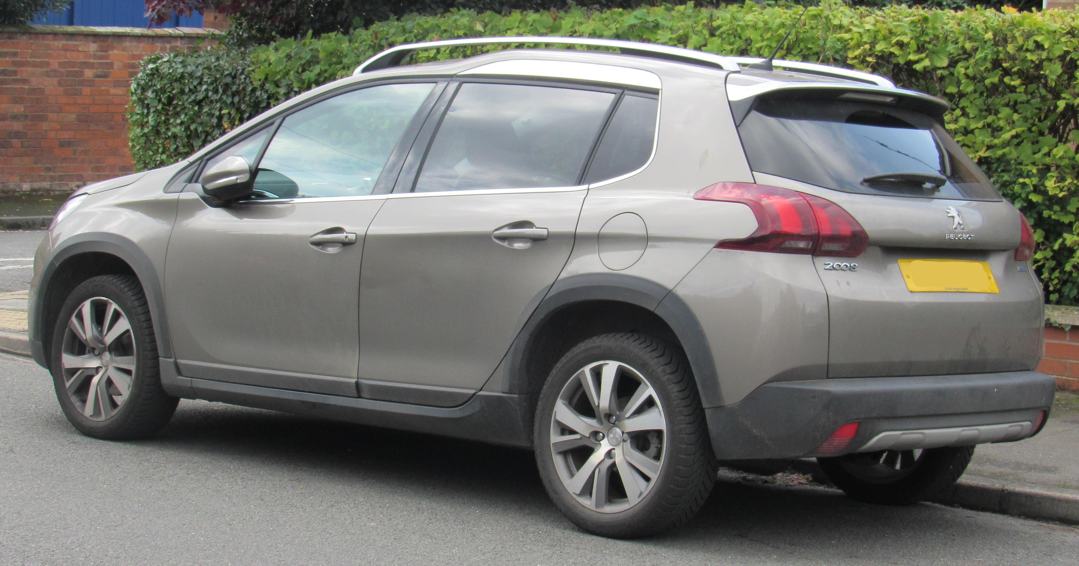 2017 Peugeot 2008 Allure 1.2 Rear Taken in Leamington Spa